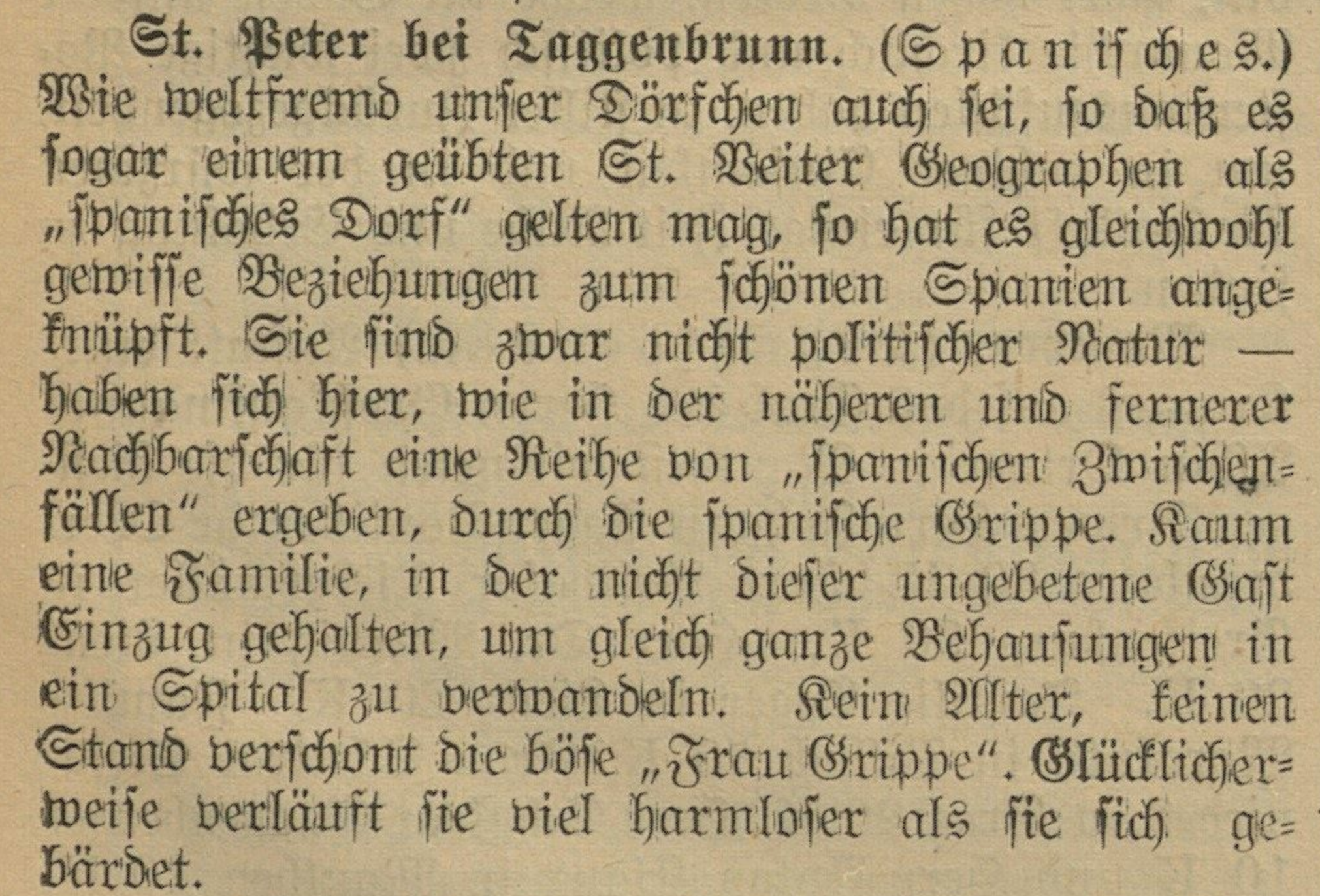 Very early (31 August 1918) newspaper report („Kärntner Zeitung) in Carinthia / Austria / European Union about the Spanish flu in Taggenbrunn, parish St. Peter bei Taggenbrunn.